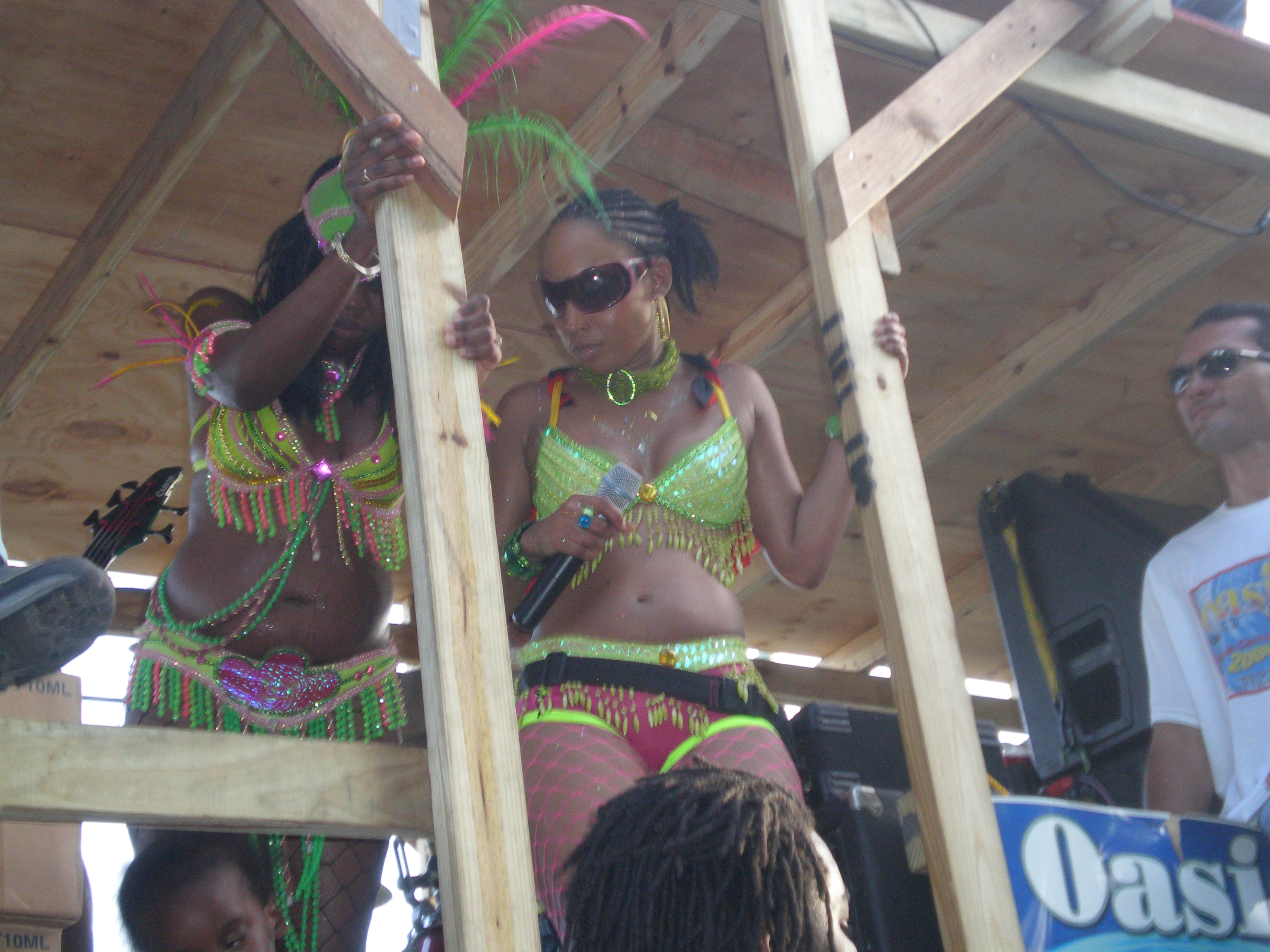 Tanzania "Tizzy" Sebastian of the El-A-Kru during carnival festivities.